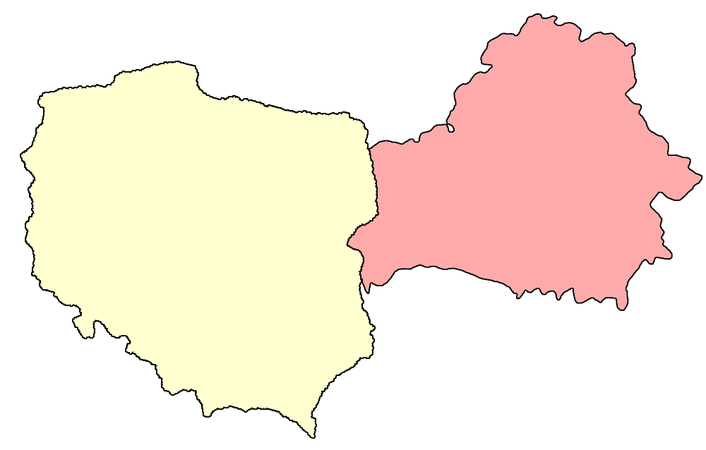 Border Agreement between Poland and the USSR of 16 August 1945